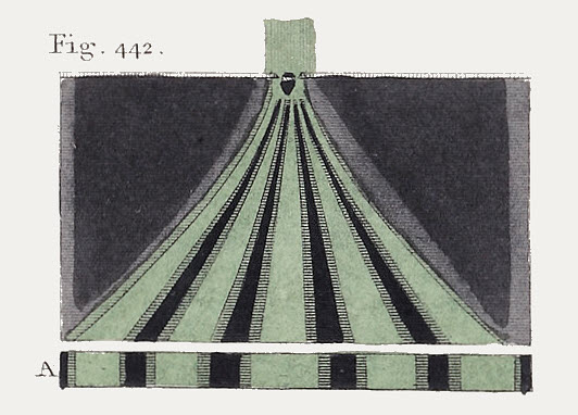 Image of fig.442 from plate XXX from Thomas Young's "Lectures", publ. 1807, the text of lectures to London's Royal Institution in 1802. Shows Young's experience of the "two slit" phenomenon, which supports wave theory of light.